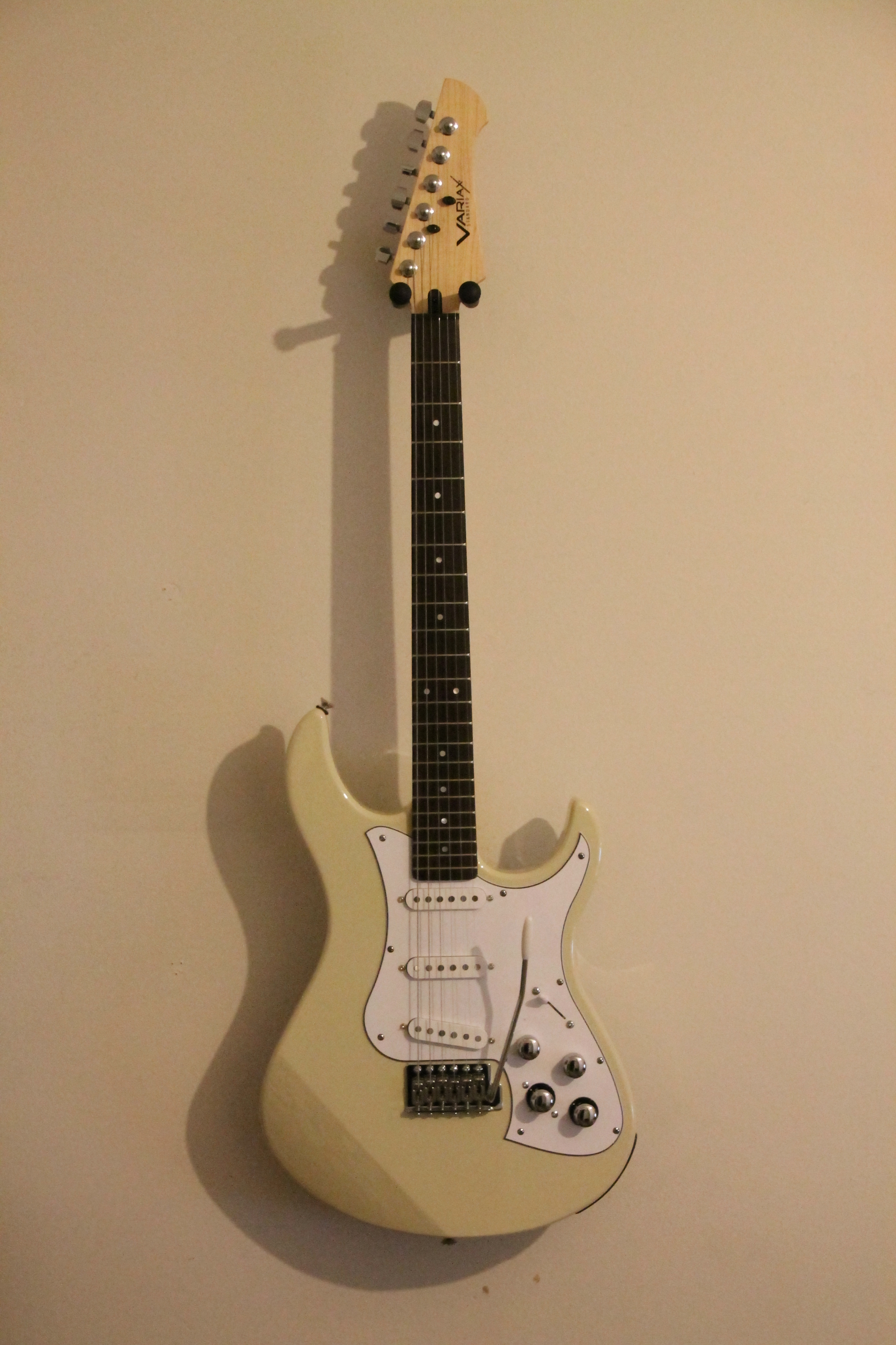 Line6 Variax Standard -electric guitar.